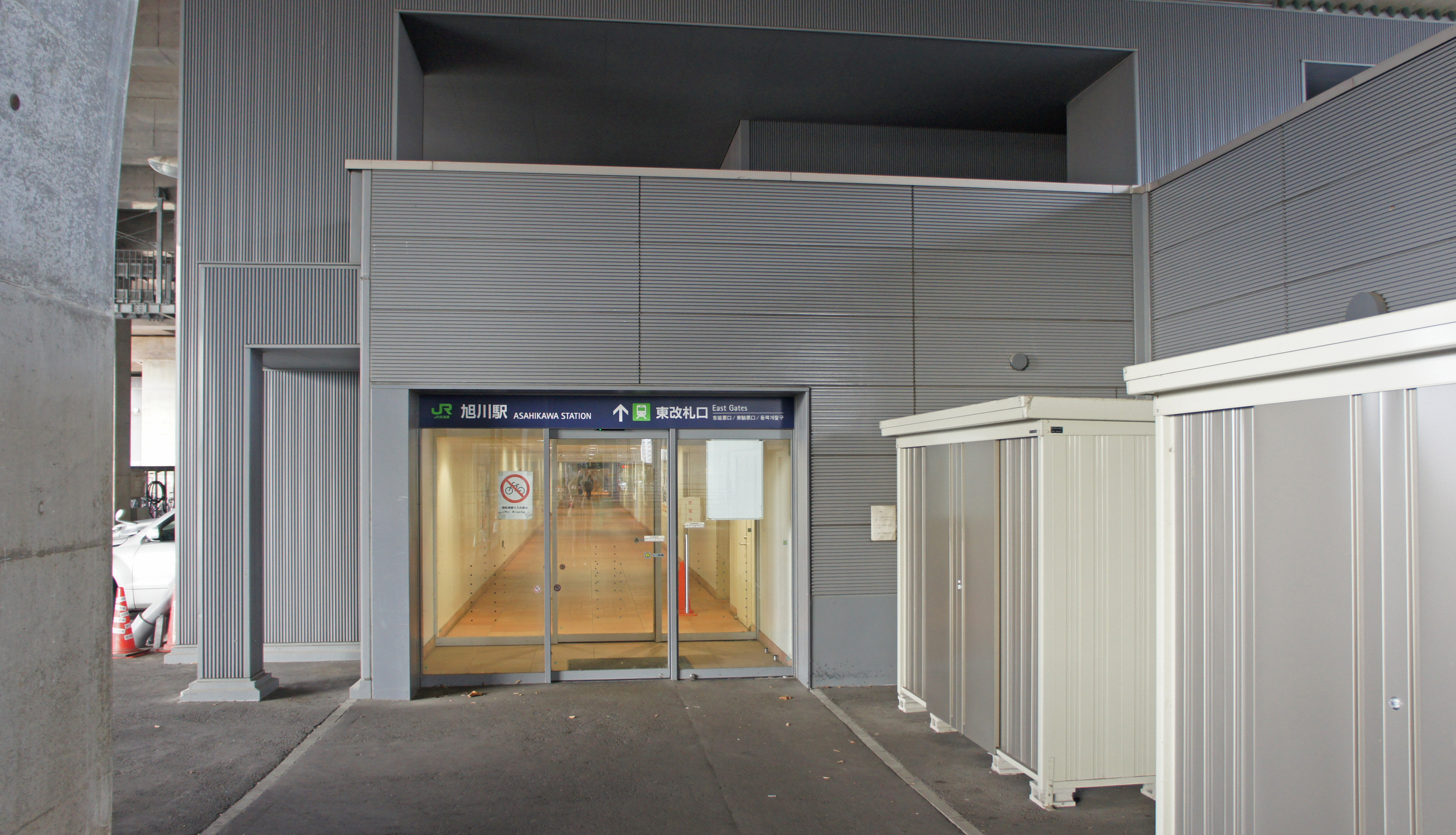 East Exit of JR Asahikawa Station